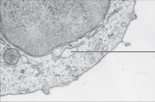 Caption: (a) The ER is a winding network of thin membranous sacs found in close association with the cell nucleus. The smooth and rough endoplasmic reticula are very different in appearance and function (source: mouse tissue). (b) Rough ER is studded with numerous ribosomes, which are sites of protein synthesis (source: mouse tissue). EM × 110,000. (c) Smooth ER synthesizes phospholipids, steroid hormones, regulates the concentration of cellular Ca++, metabolizes some carbohydrates, and breaks down certain toxins (source: mouse tissue). EM × 110,510. (Micrographs provided by the Regents of University of Michigan Medical School © 2012) URL: Version 8.25 from the Textbook OpenStax Anatomy and Physiology Published May 18, 2016